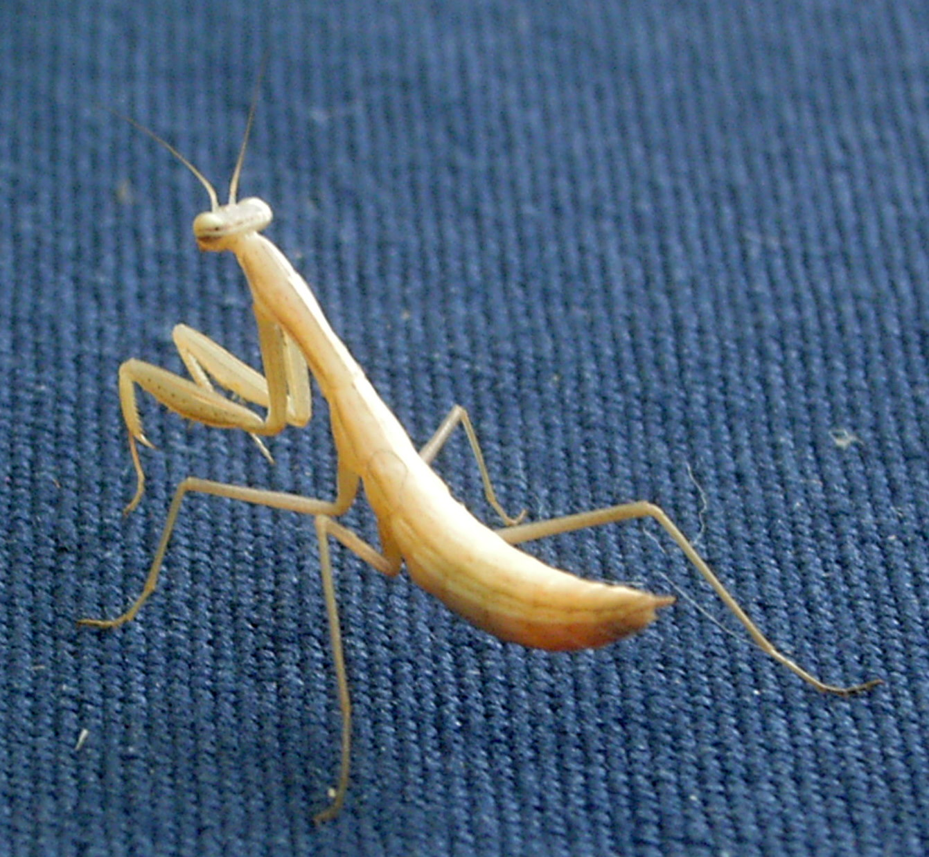 Young Praying mantis.